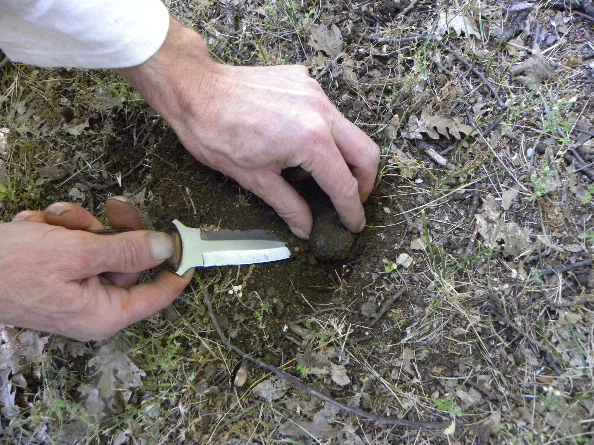 Truffles catching in Mons, Var